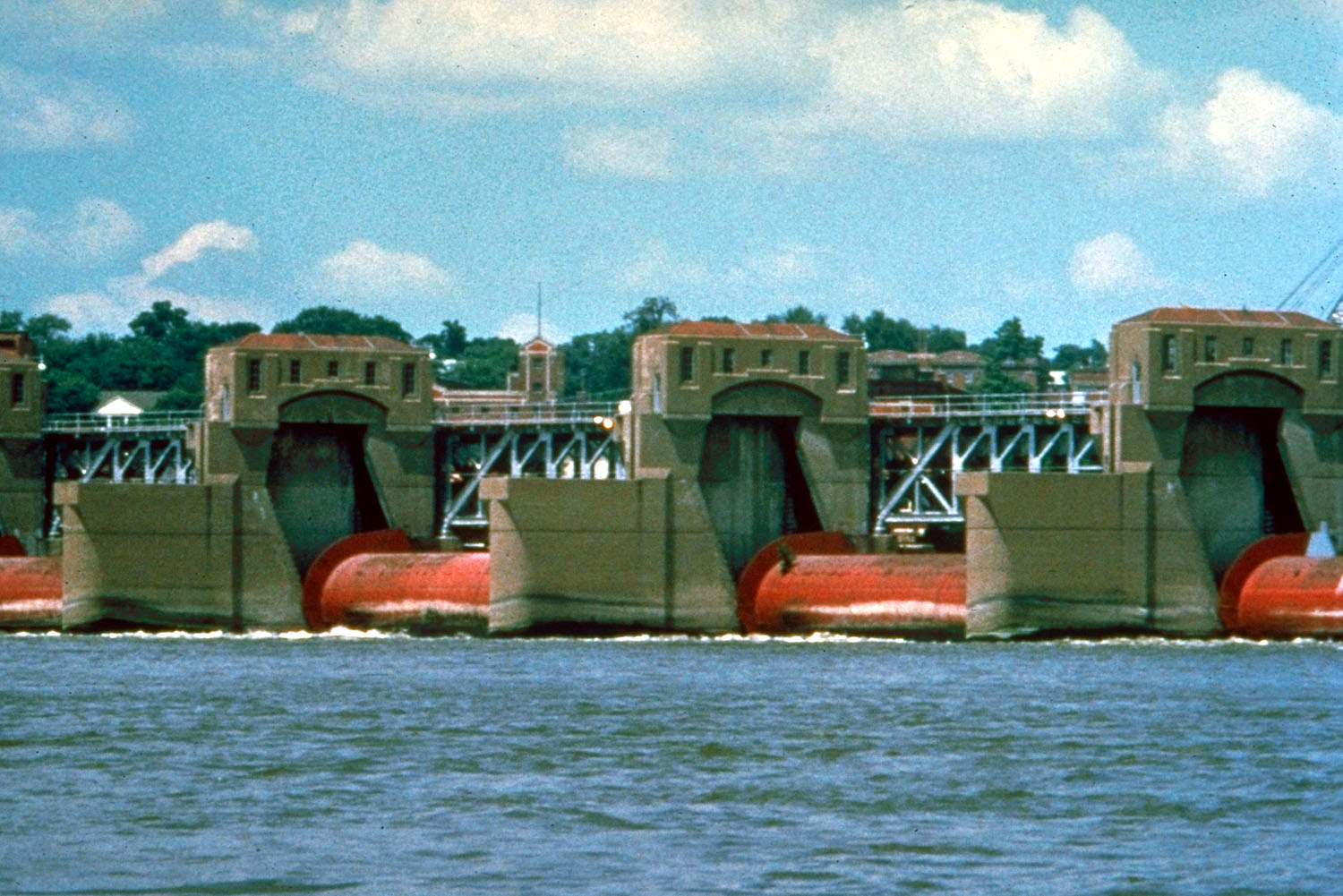 Aerial View of Lock and Dam 15, Mississippi River, Rock Island Illinois. Rock Island District Office is also located here.